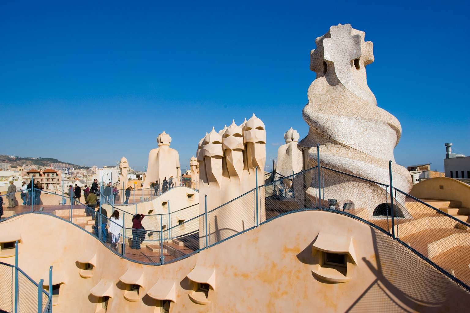 Sculptures on roof of Casa Milà.